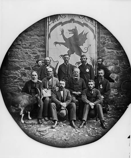 Teitl Cymraeg/Welsh title:Beirdd Llanrwst (1876) Ffotograffydd/Photographer: John Thomas (1838-1905) Dyddiad/Date: [ca. 1876] Cyfrwng/Medium: Negydd gwydr / Glass negative Maint/Dimensions: 16.5 x 21.5 cm. Cyfeiriad/Reference: jth01447 Rhif cofnod / Record no.: 3362398 Rhagor o wybodaeth am gasgliad John Thomas yn Llyfrgell Genedlaethol Cymru More information about the John Thomas Collection at the National Library of Wales Mae ffotograffau John Thomas hefyd yn rhan o Broject Europeana Libraries John Thomas' photographs also form part of the Europeana Libraries Project